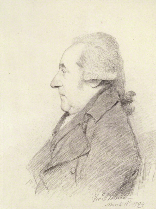 Drawing of Thomas Hull (1728–1808), English actor and dramatist.